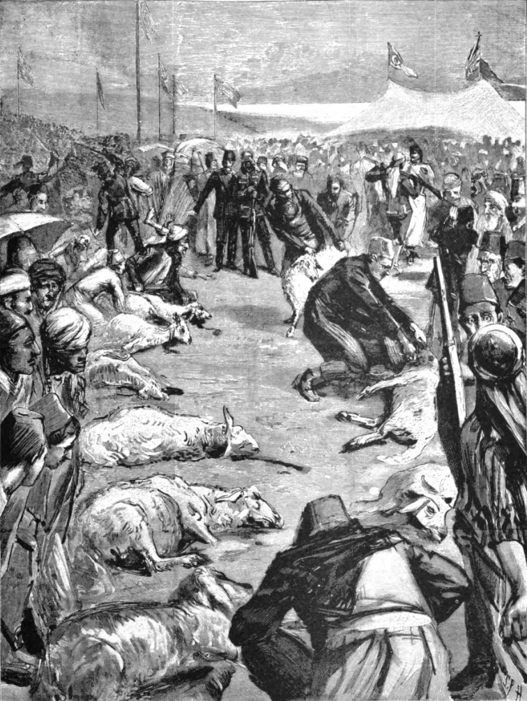 An artist's representation of the ceremony marking the start of construction of the Haifa–Damascus railway line, later to be turned into the Jezreel Valley Railway, part of the Hedjaz Railway.